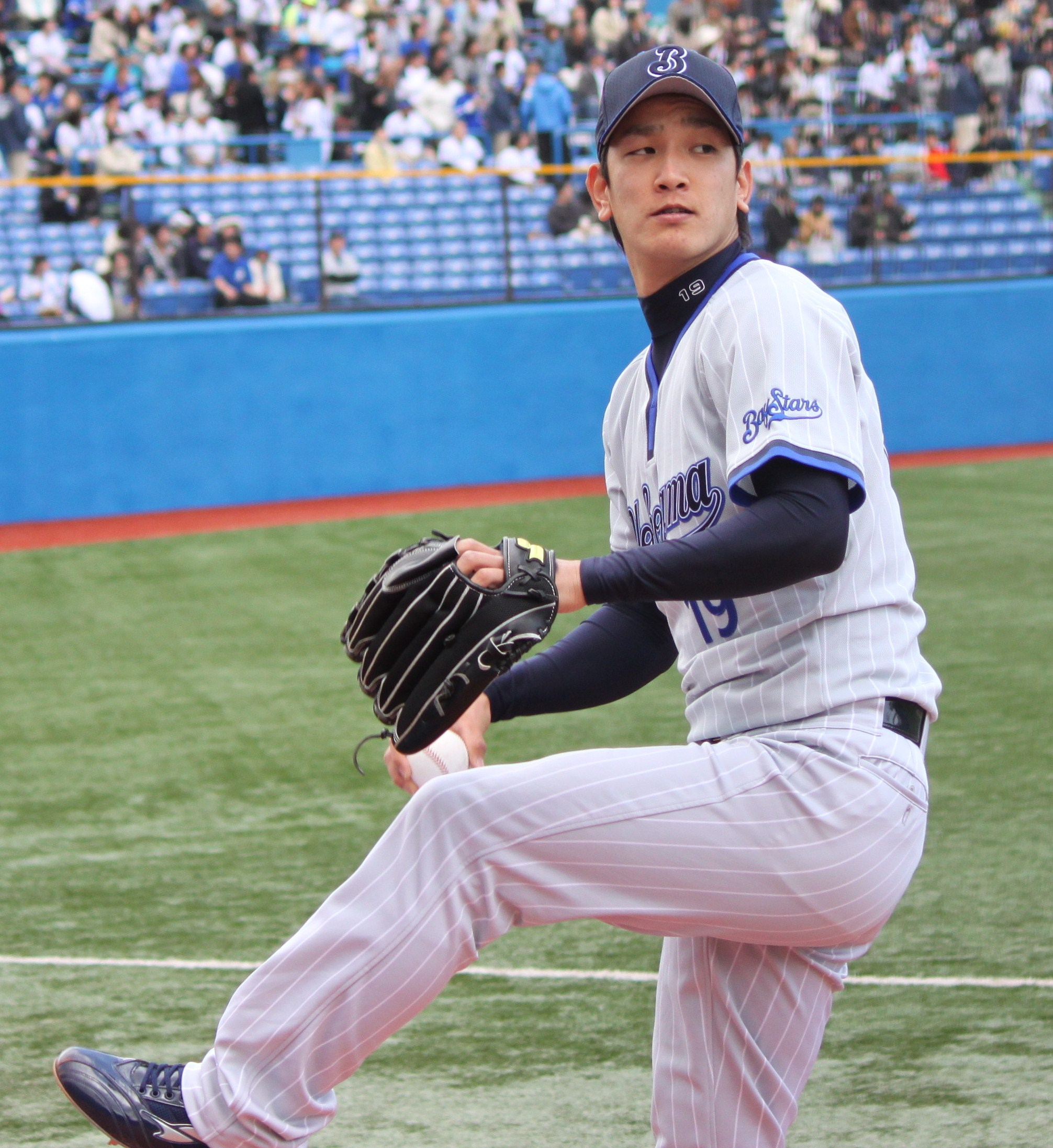 Hitoshi Fujie, pitcher of the Yokohama BayStars, at Meiji Jingu Stadium.